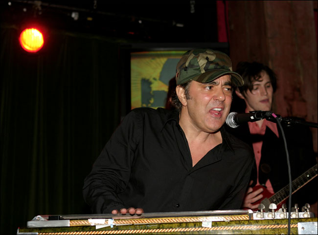 June 2005, Hiro Ballroom, New York, NY USA